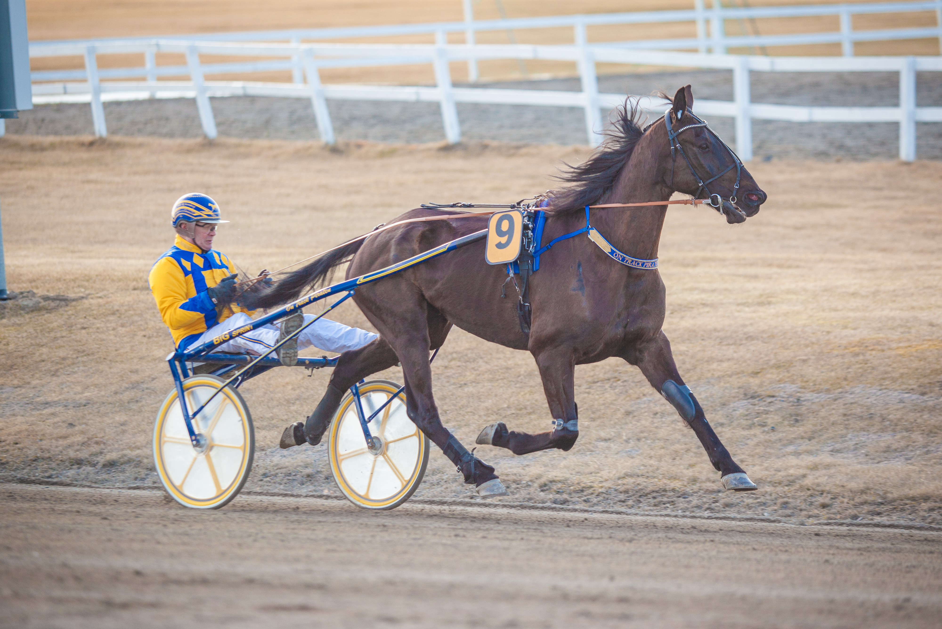 On Track Piraten and Hans R. Strömberg at Seinäjoki 13.4.2019